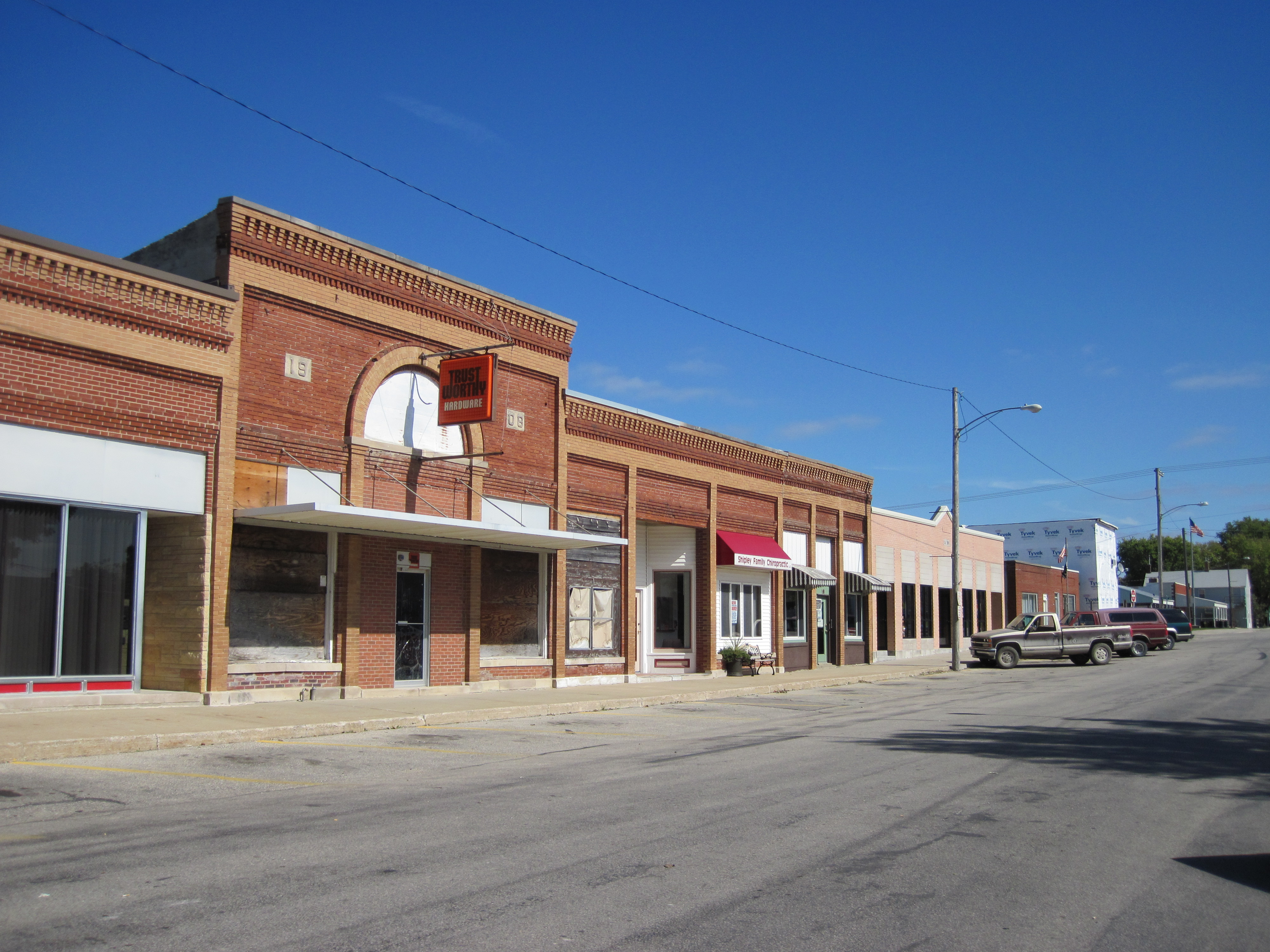 Urbana Bill Whittaker (talk) 12:45, 2 October 2009 (UTC)